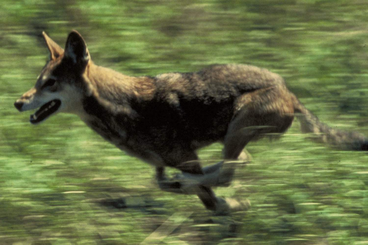 Red wolf running